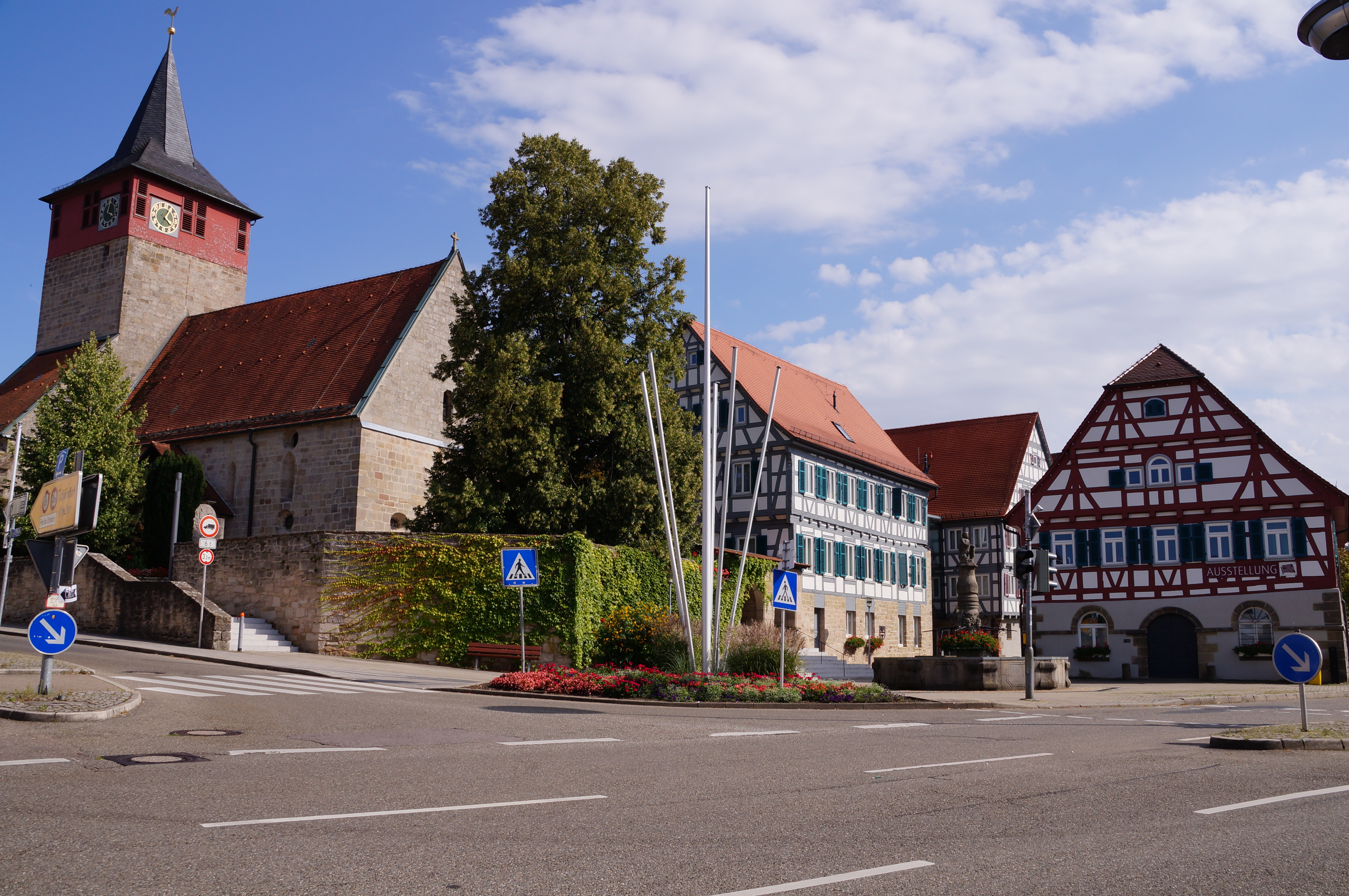 Winterbach town center with Michaelskirche and ancient town hall